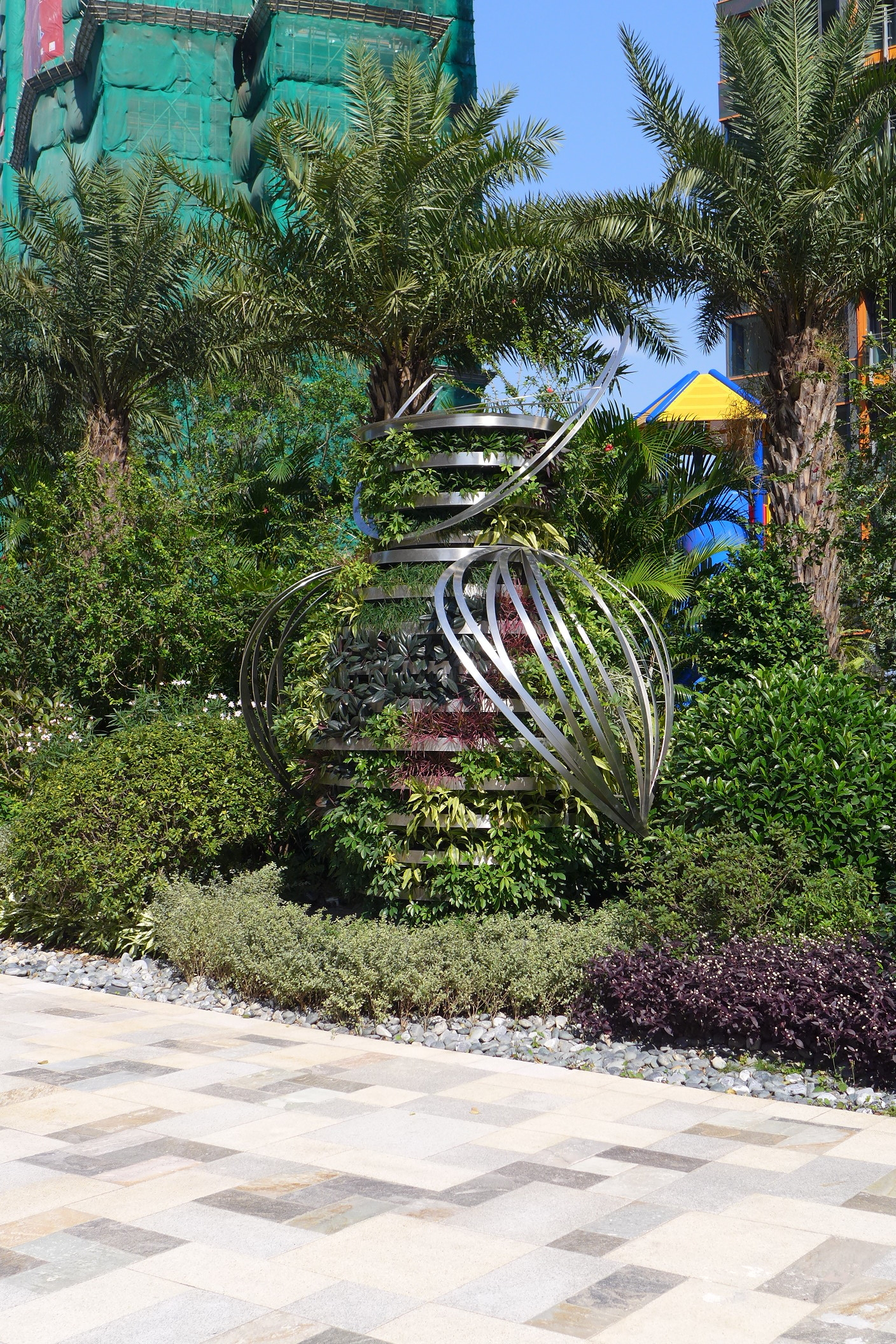 Double Cove Uncle Owl by William Lim